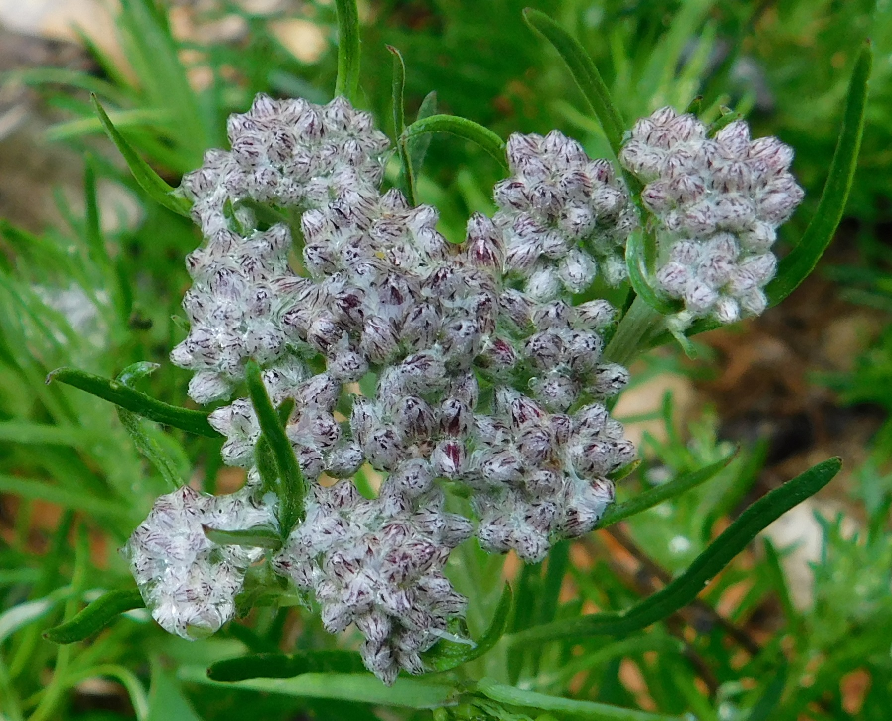 Vernonia capensis (in bud) at the University of California Botanical Garden, Berkeley, California, USA. Identified by the garden signage.